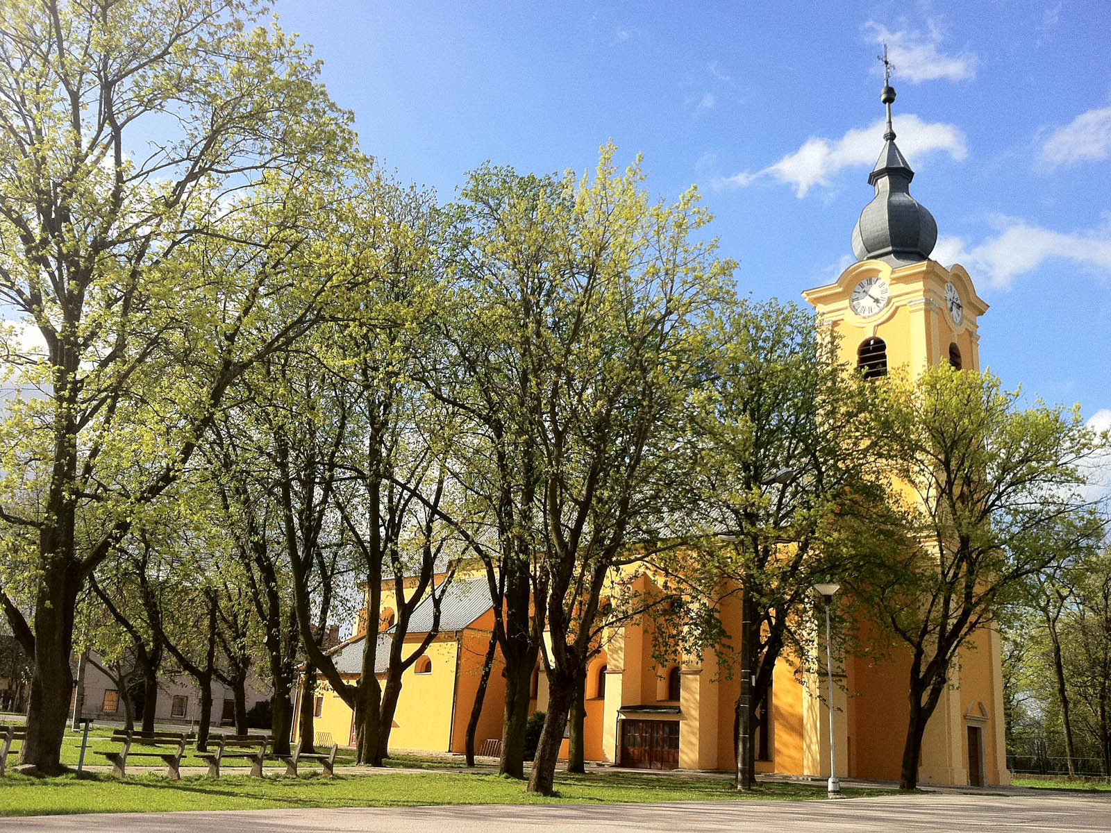 Roman Catholic church of Saint Ladislaus in Mojmírovce, Nitra region, Slovakia